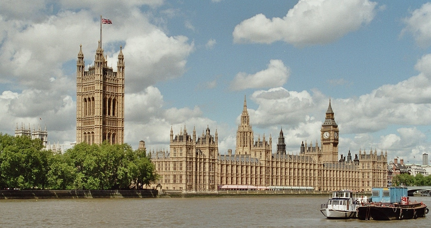 Houses of parliament/Westminster palace, London